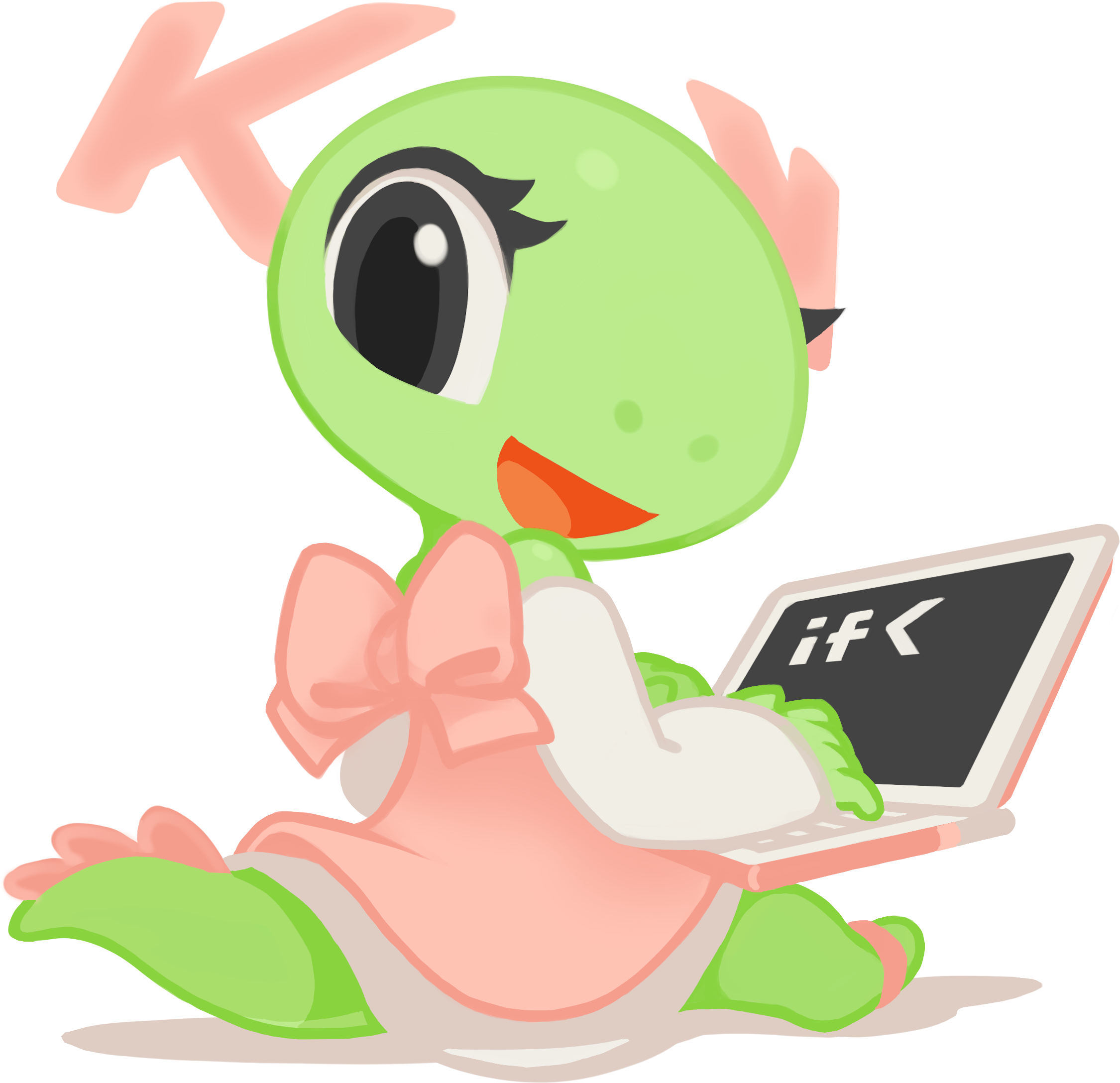 KDE mascot Konqi for KDE development applications.